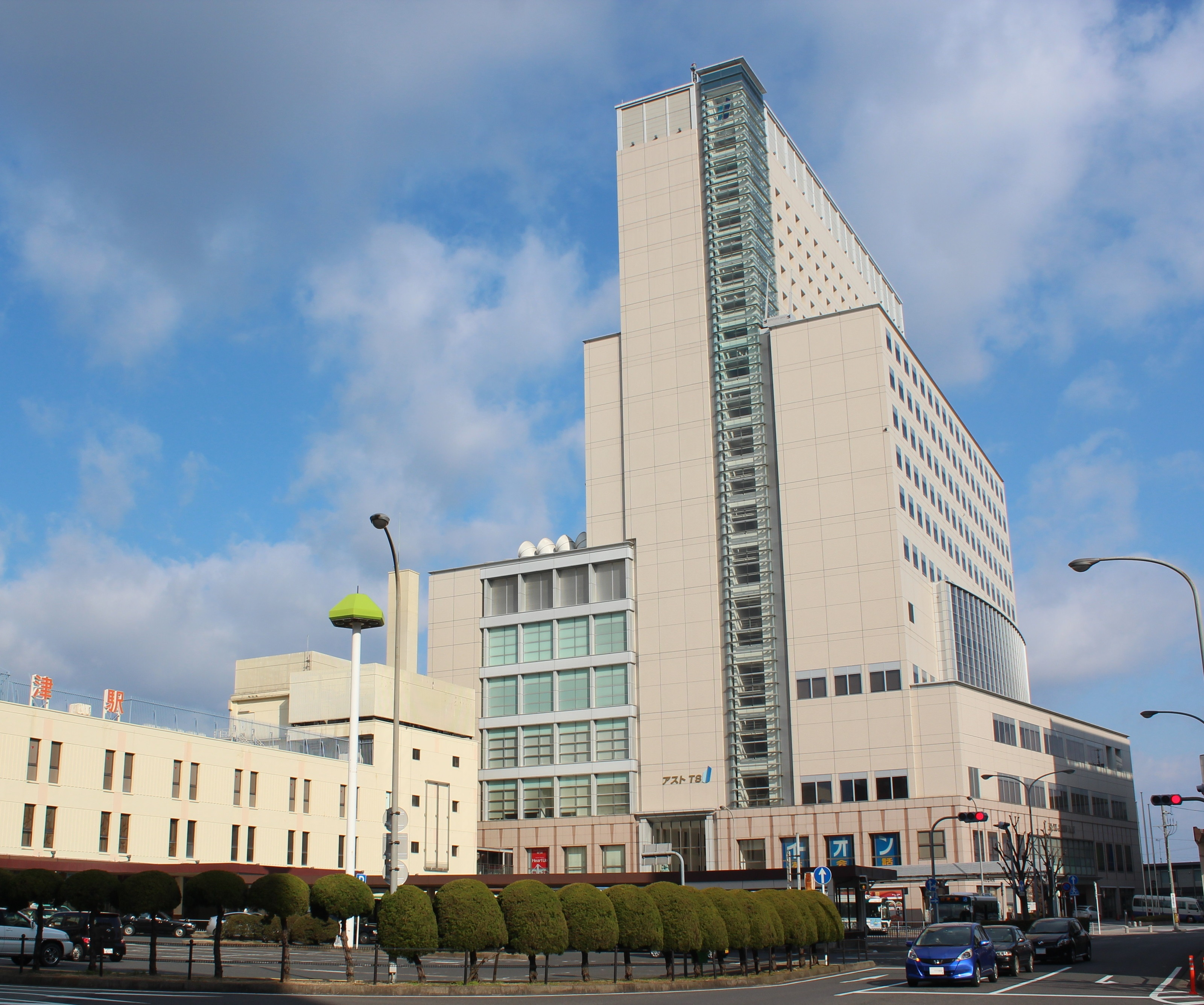 Tsu Station and UST-TSU